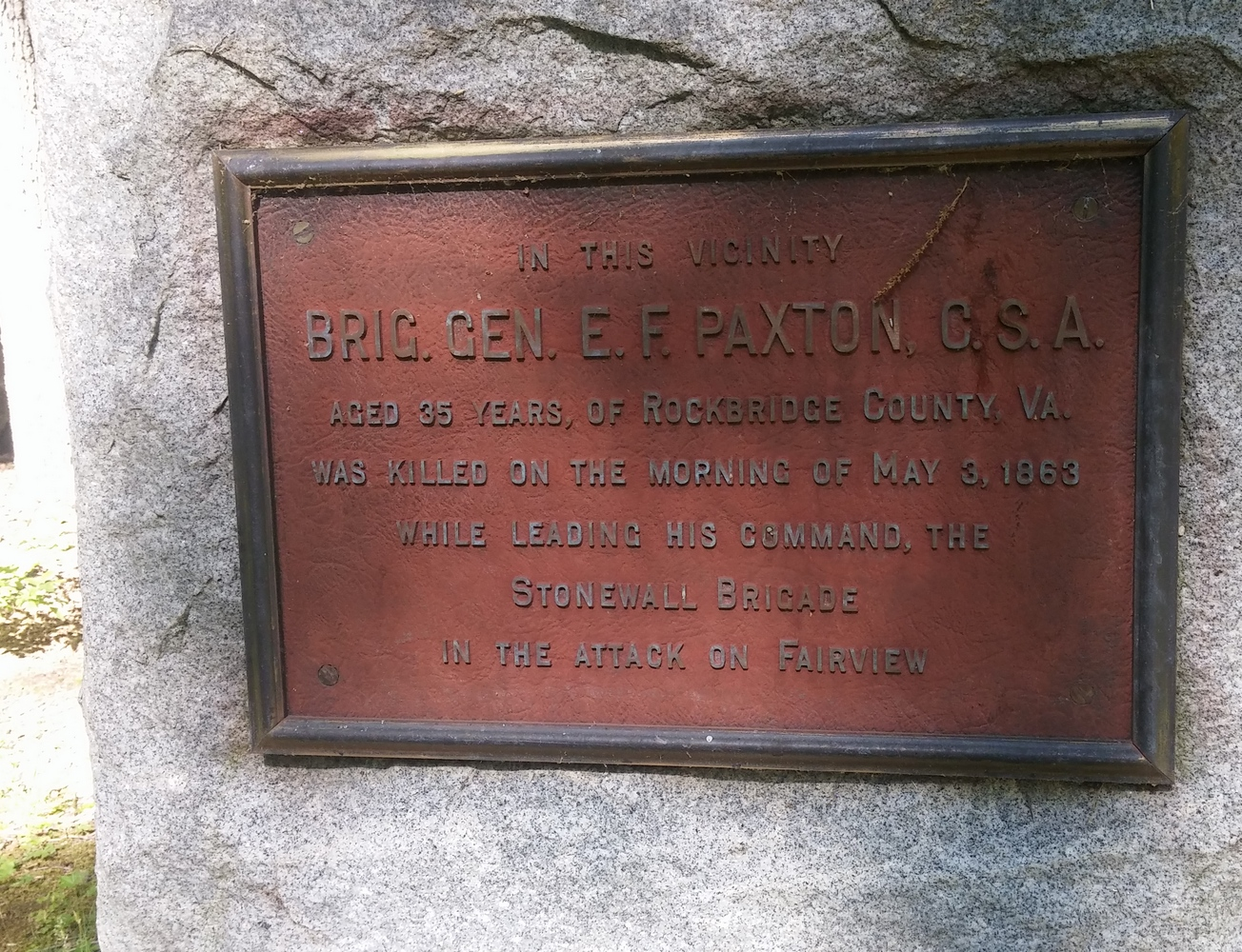 Paxton monument at Chanсellorsville battlefield